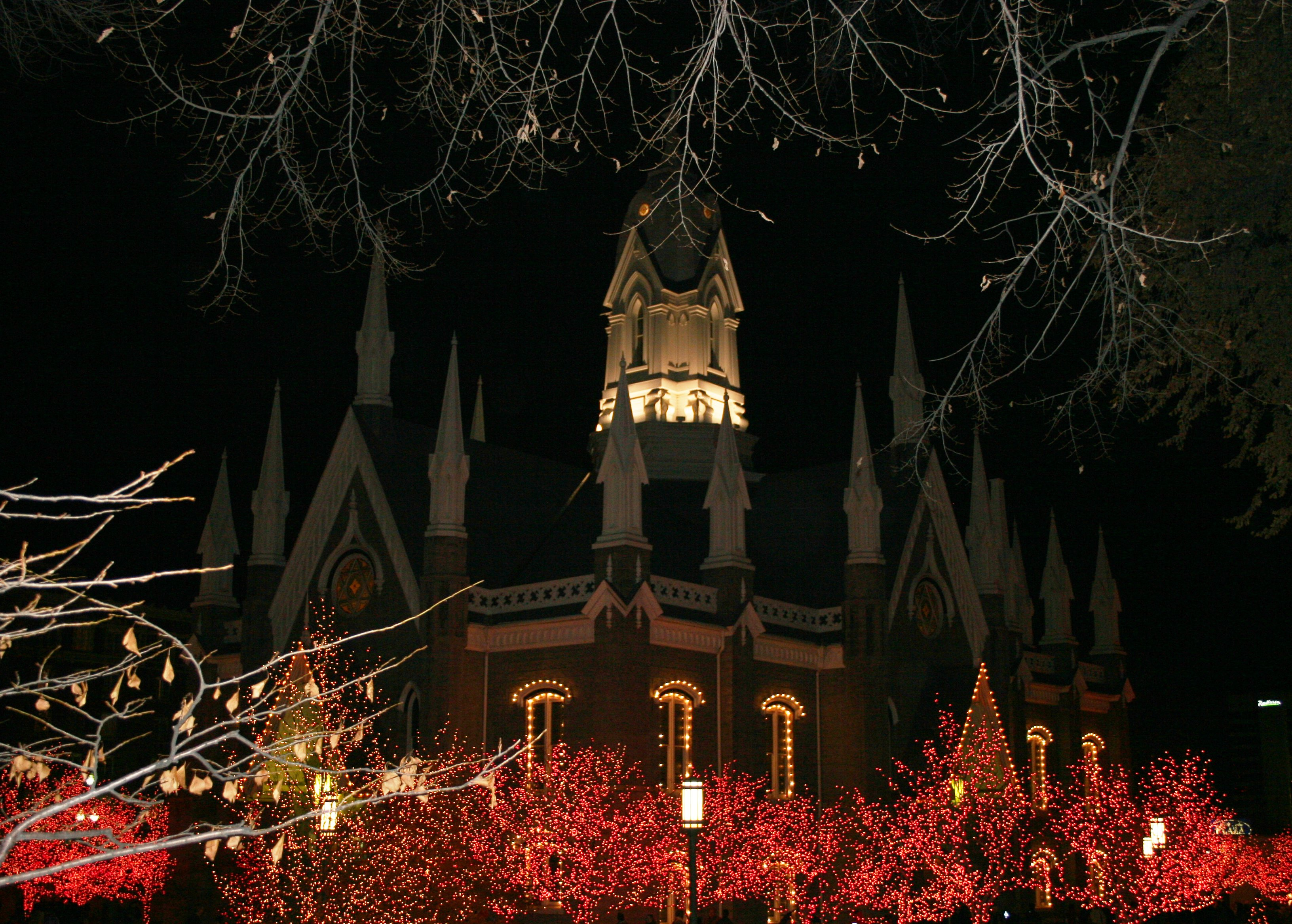 The Assembly Hall at Temple Square at Christmas time. Salt Lake City, Utah Photo taken December 2005, by Brian Davis